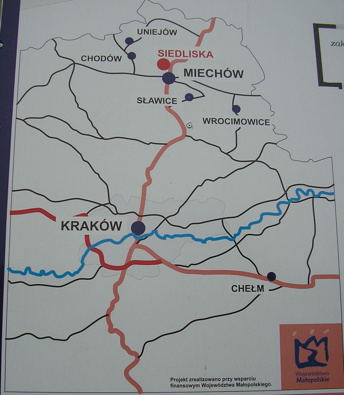 Map of Order of the Holy Sepulchre in Lesser Poland Voivodeship.